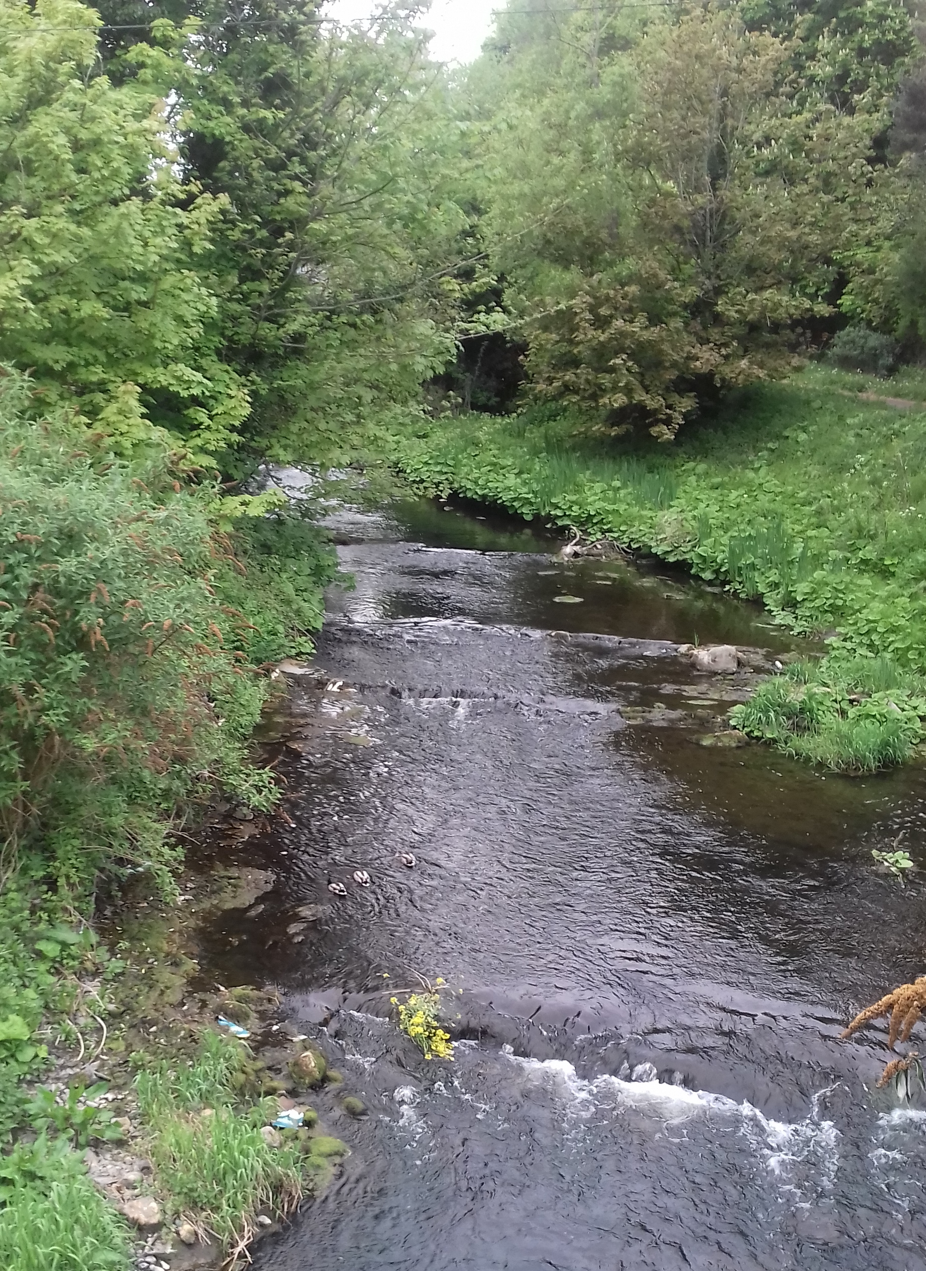 Looking west over the River Tolka. Taken from the bridge on the Mill Road by the side entrance to Connolly Hospital. The woods of Waterville Park visible on the right. Part of Deanstown townland. Taken during the COVID-19 pandemic.